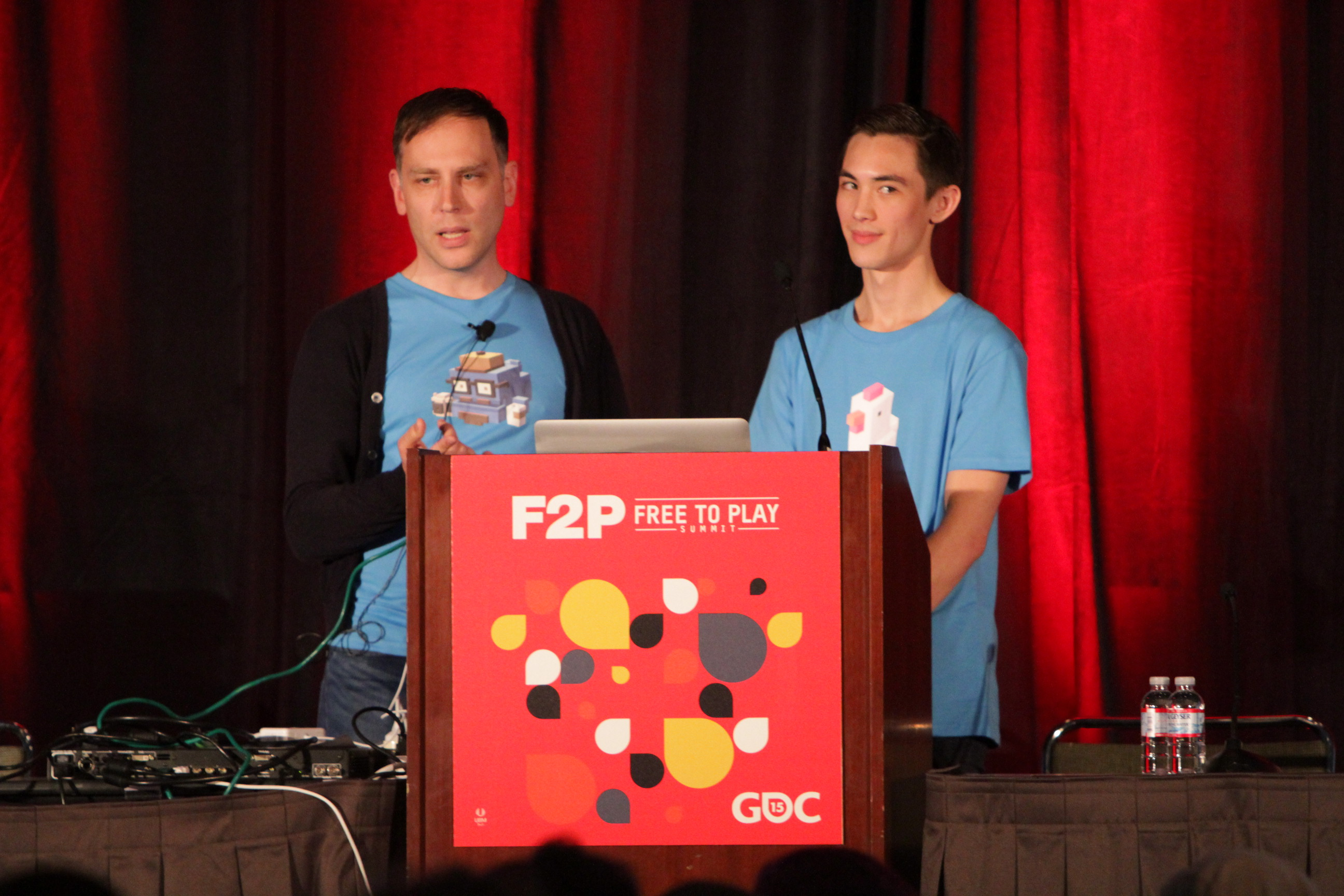 Crossy Road developers Matt Hall and Andy Sum